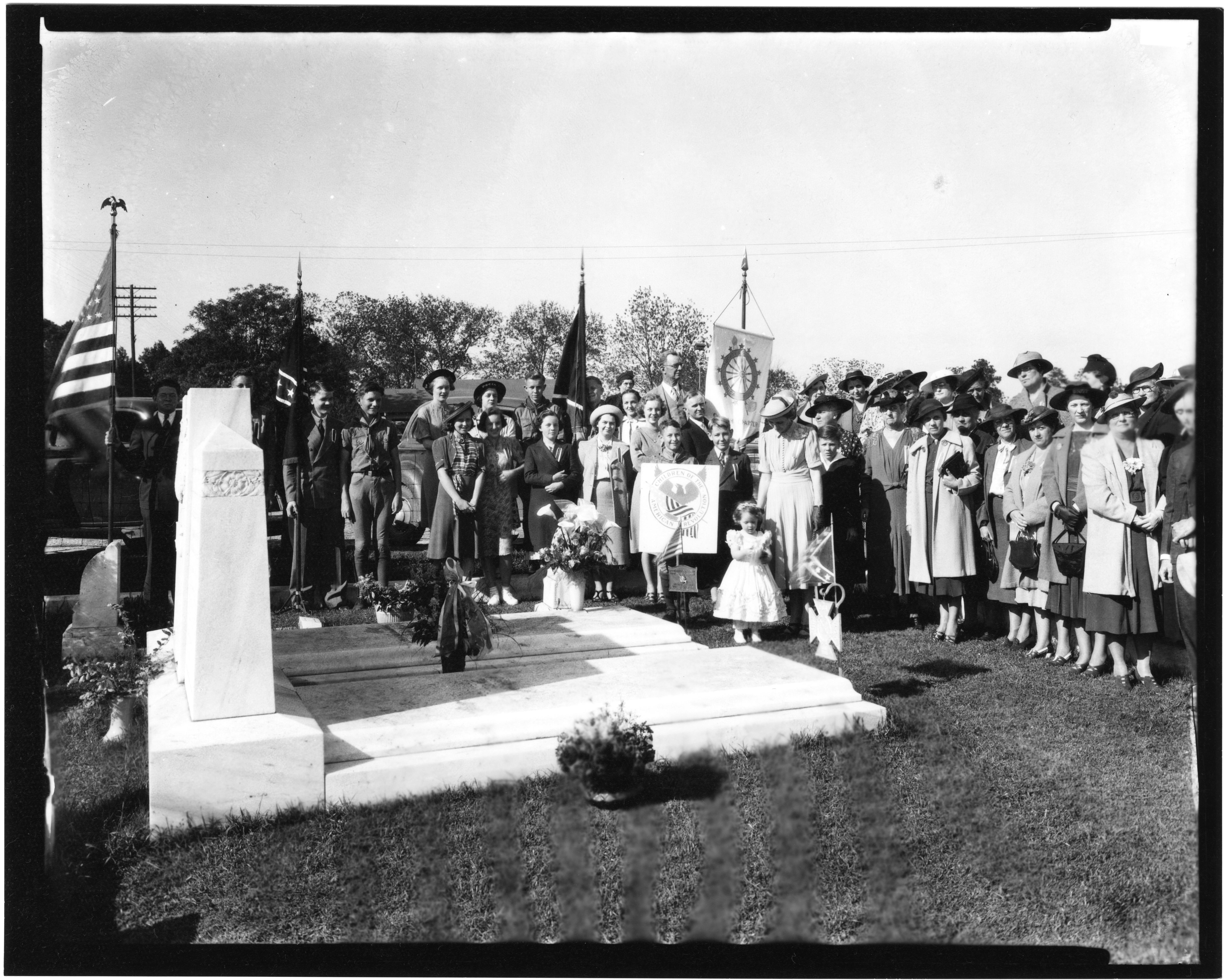 Collection: Hamilton (Luther) Photograph Collection Call number: PI/1994.0004 System ID: 100859. Children of the American Revolution ceremony. Copiah County, Mississippi. Scanned as tiff in 2009/12/10 by MDAH. Credit: Courtesy of the Mississippi Department of Archives and History.